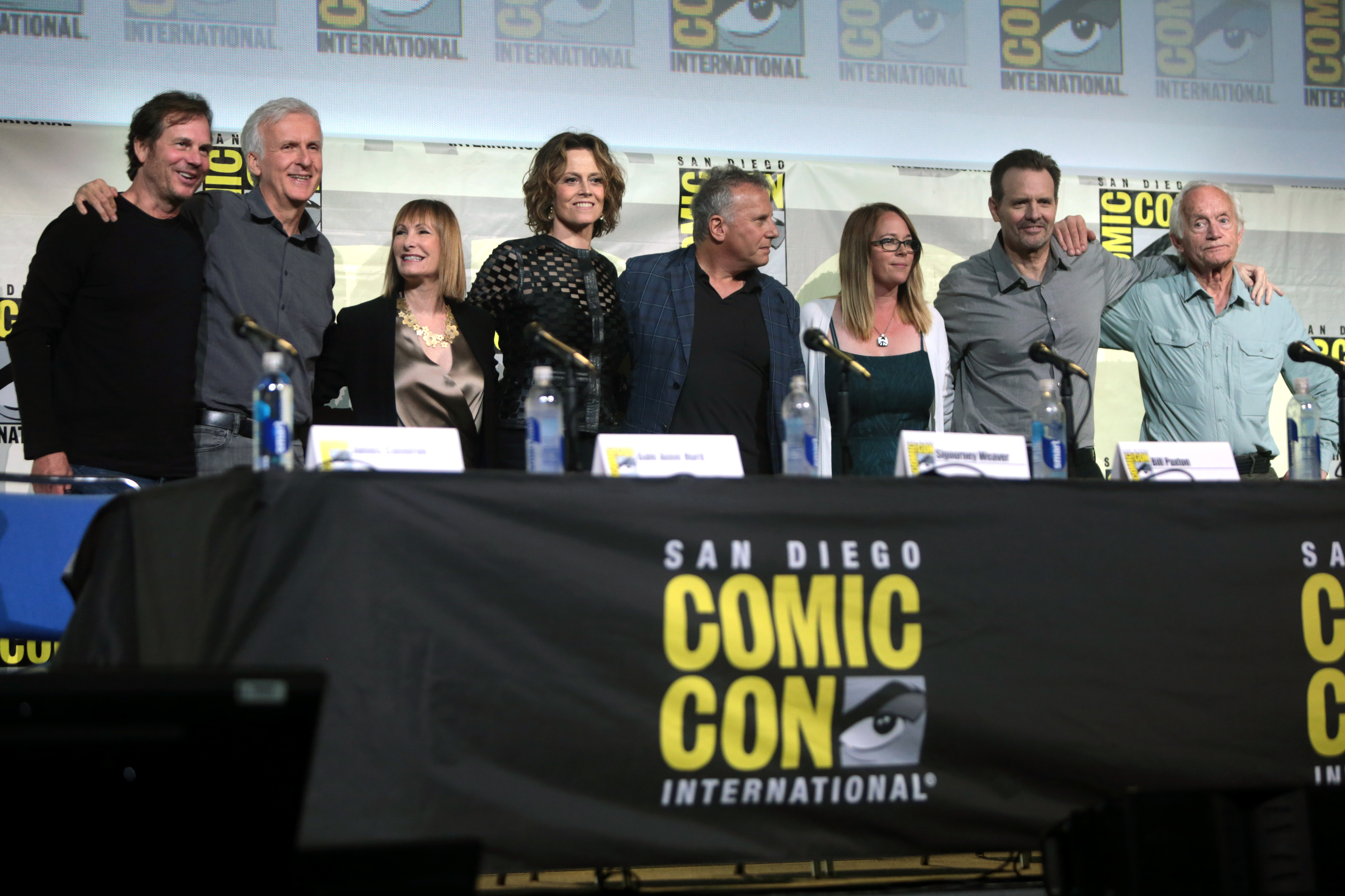 Bill Paxton, James Cameron, Gale Anne Hurd, Sigourney Weaver, Paul Reiser, Carrie Henn, Michael Biehn and Lance Henriksen speaking at the 2016 San Diego Comic Con International, for "Aliens: 30th Anniversary", at the San Diego Convention Center in San Diego, California.